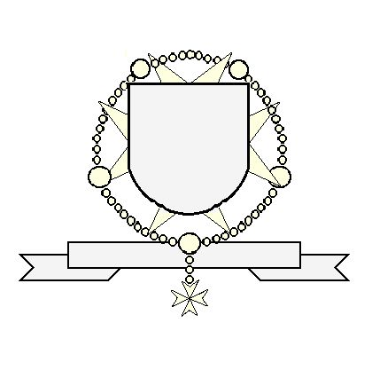 Those that aren't priests but have received lower dedications can put a rosary around their coat of arms like this. This is a coat of arms of a bailiff grand cross of justice in the Order of Malta. Others will naturally lack the Maltese cross and only have the rosary. It's not fitting for the religious to include crowns of noble rank.